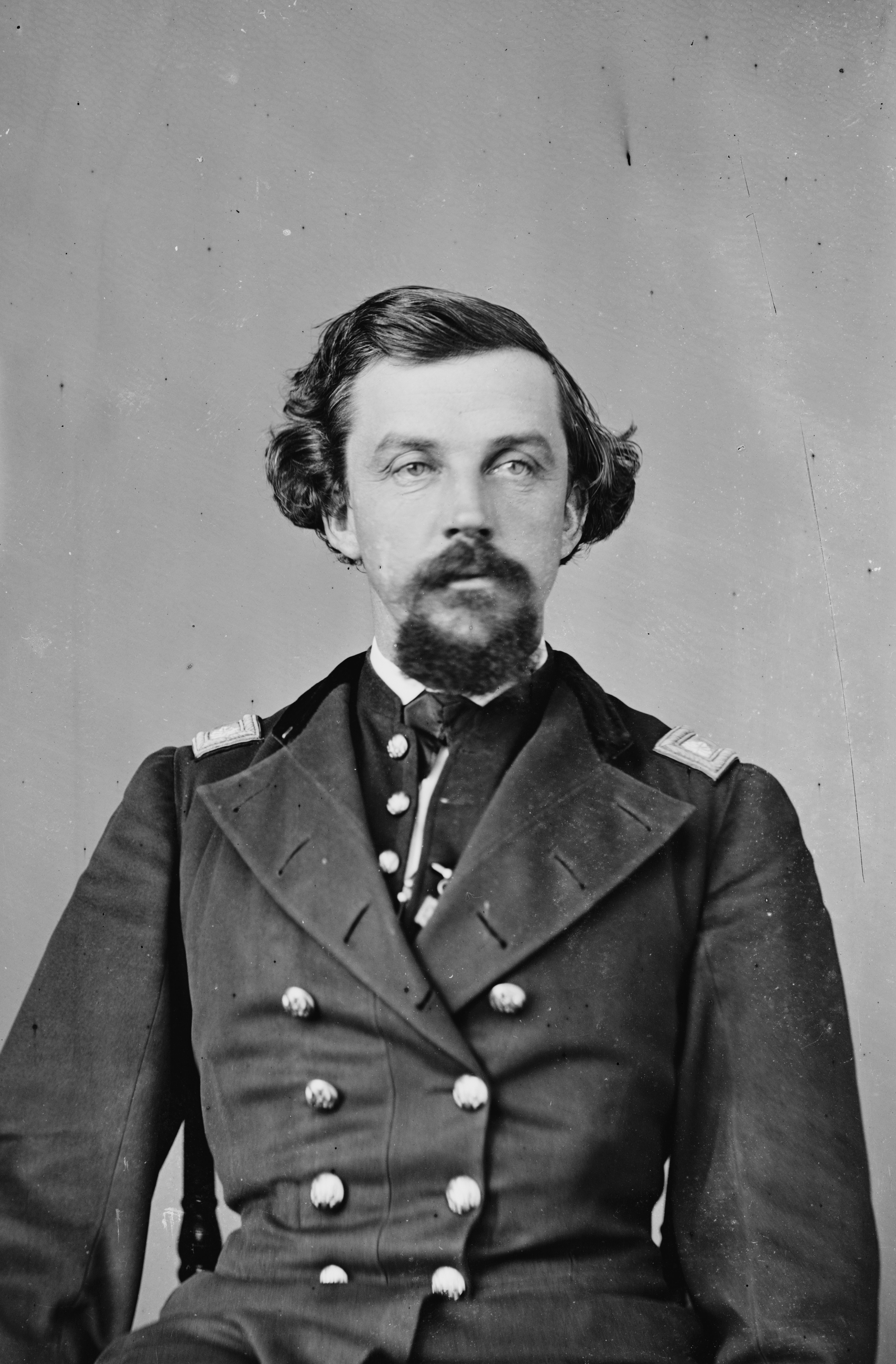 Title: Lt. Col. Samuel S.F. Tappan, 1st Colorado Regt. of Volunteers Physical description: 1 negative